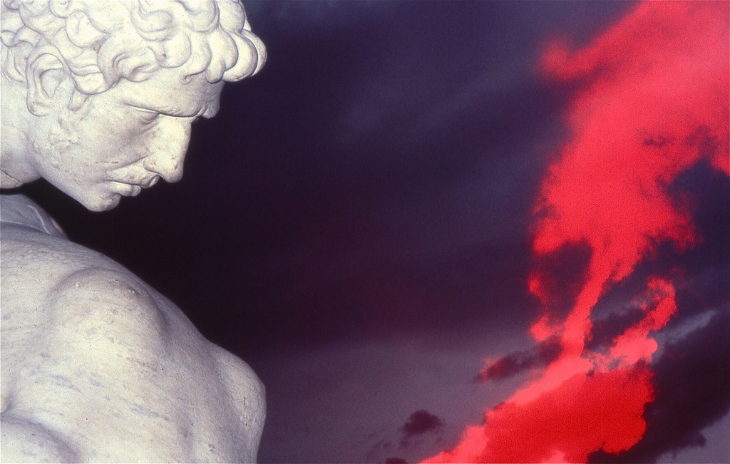 Color 4, photograph - Augusto De Luca photographer